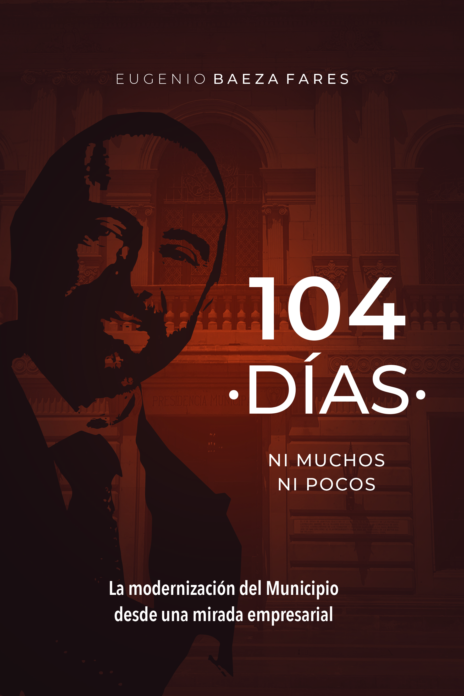 Book cover - 104 días